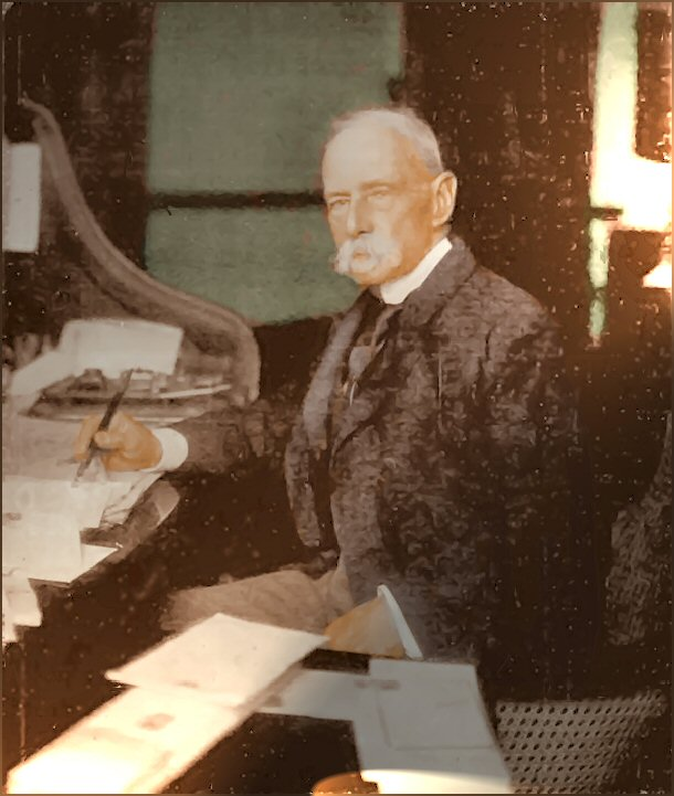 FIELD-MARSHALL EARL ROBERTS